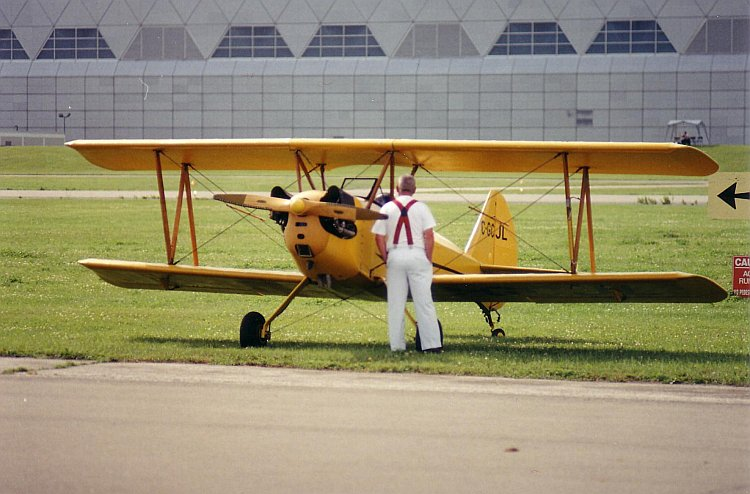 I took this photo of a Bowers Bi-Baby (C-GCJL) at Rockcliffe airport in 2001.